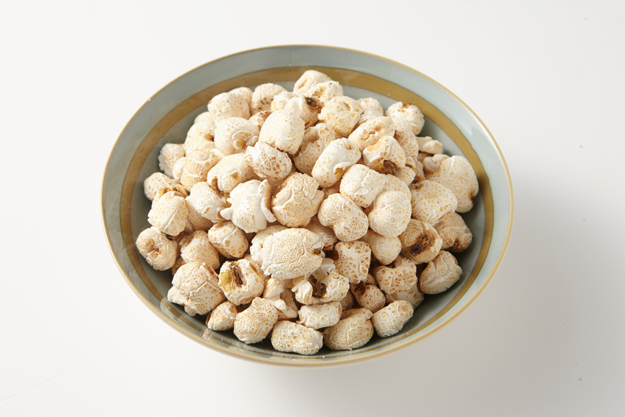 Gangnaengi (puffed corn)